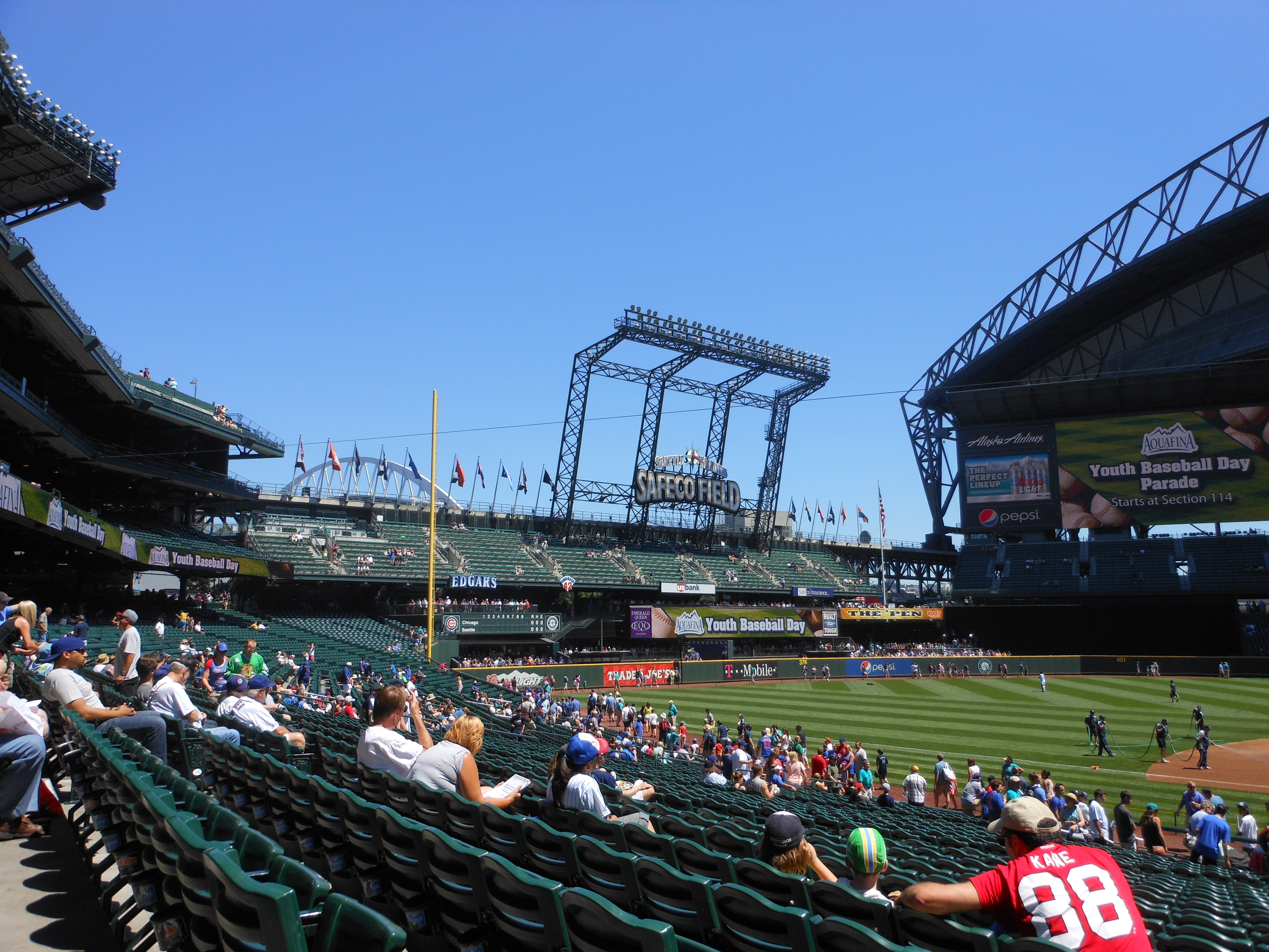 Industrial District, Seattle, WA, USA